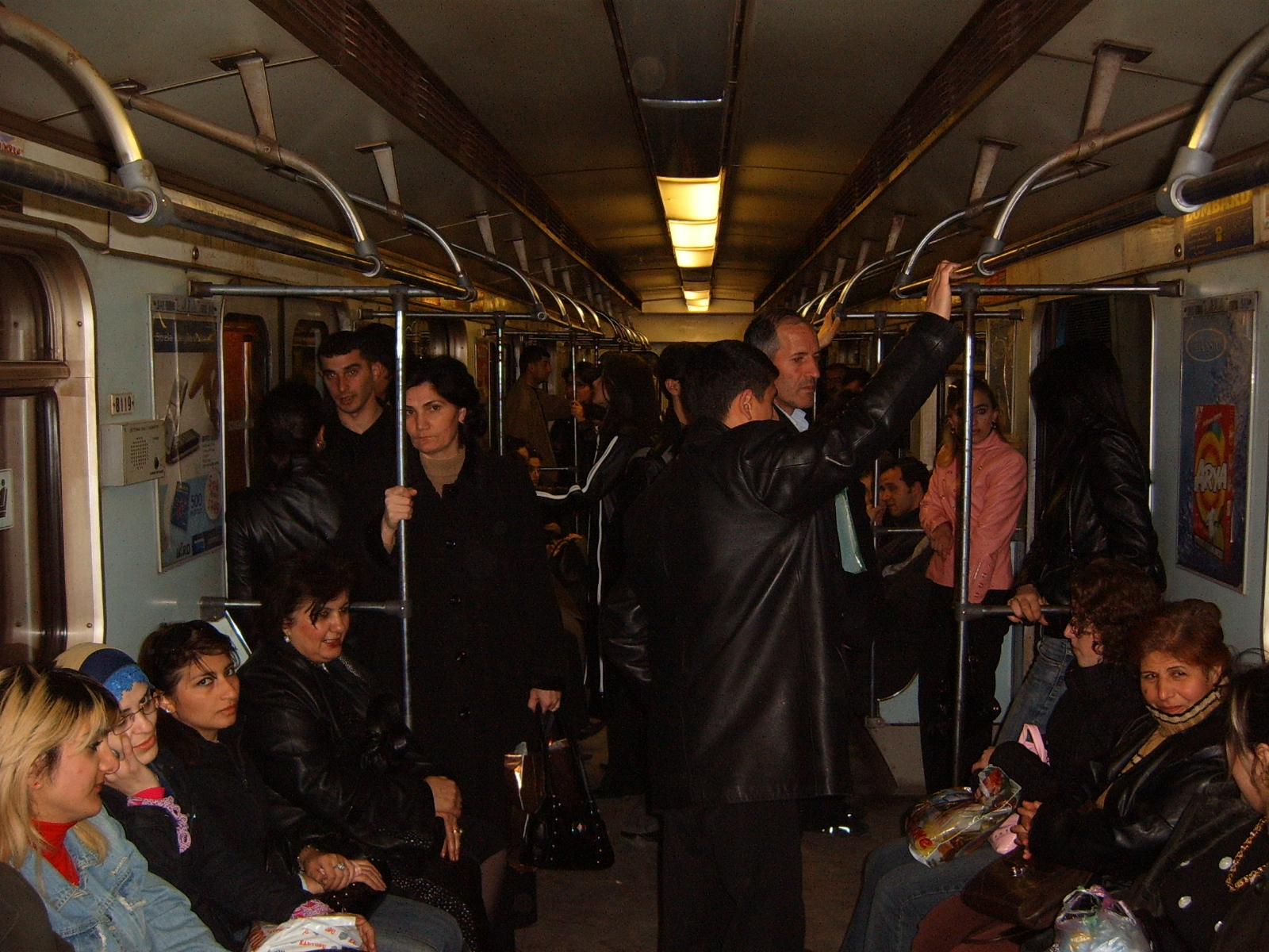 Inside of a Baku underground train